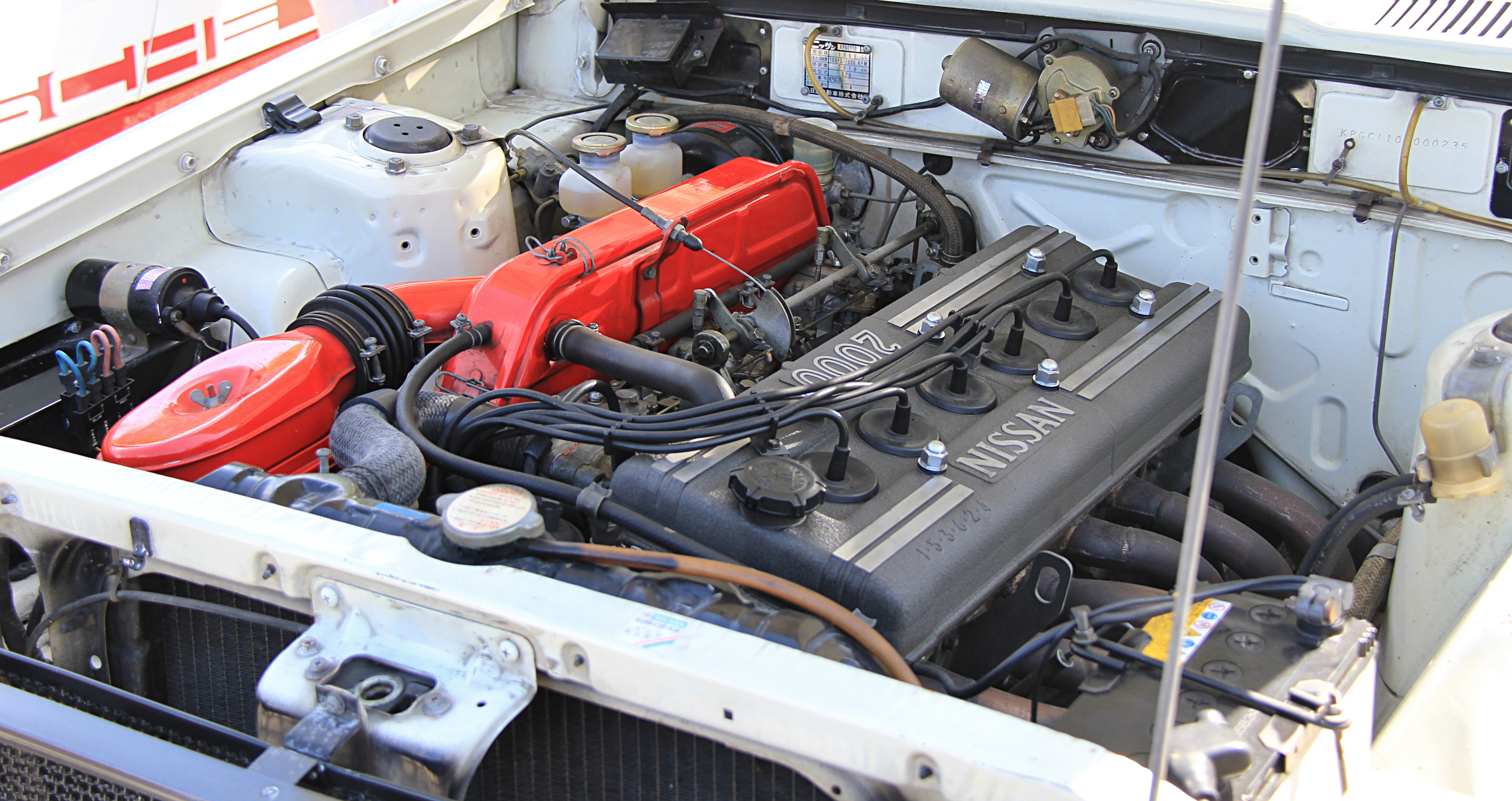 Nissan S20 engine